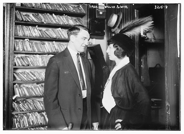 Freddie Welsh, British lightweight boxing world champion, with wife Fanny Weston, origonally Brahna Weinstein. They are at the Bain photo studio in Manhattan with part of the photo archive visible behind them.